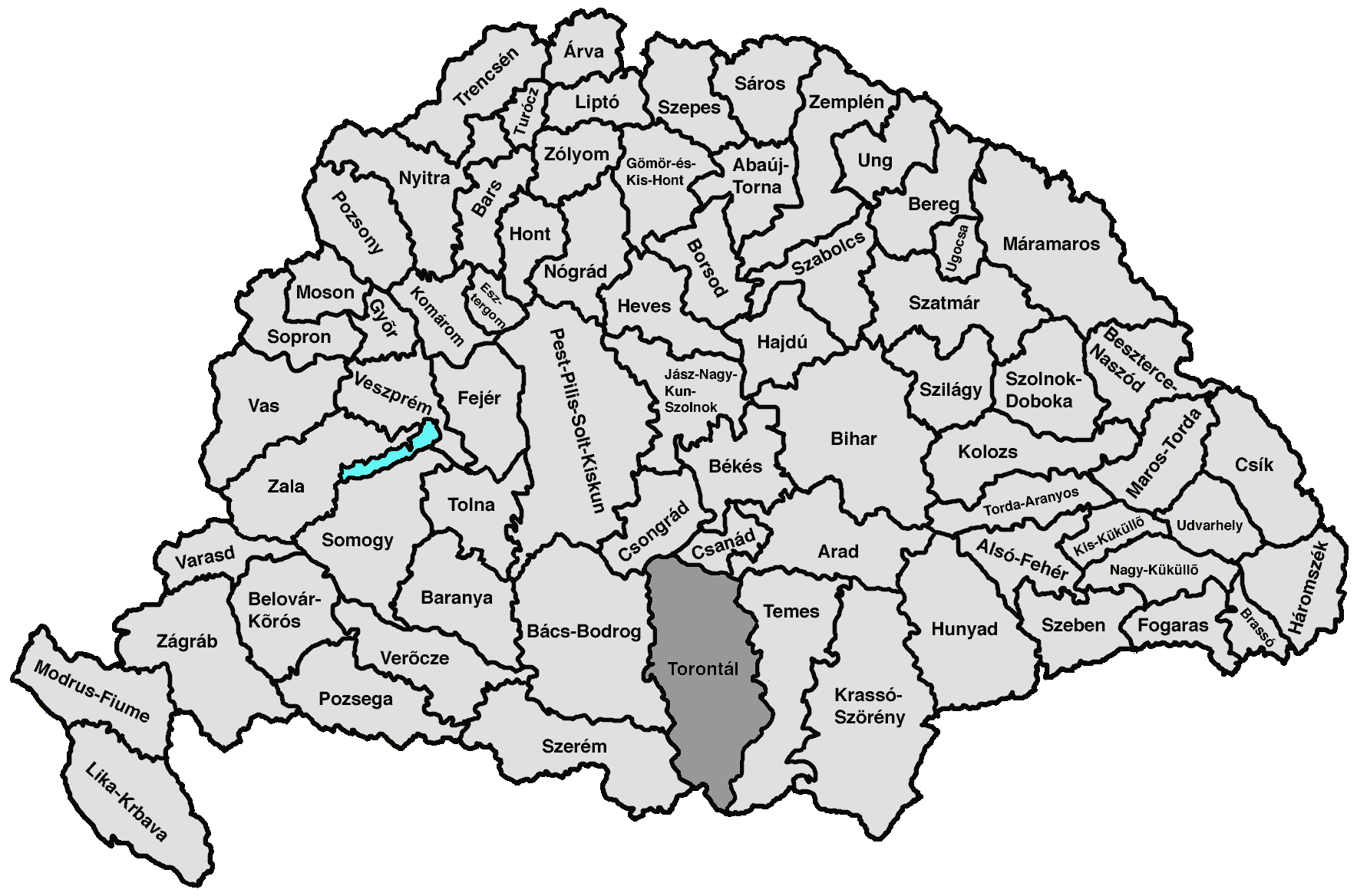 own edit of Image:Zala.png